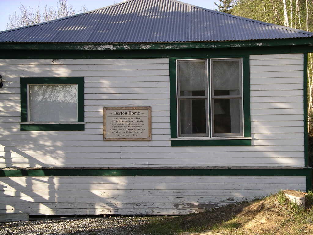 Where the great author pierre Berton was raised